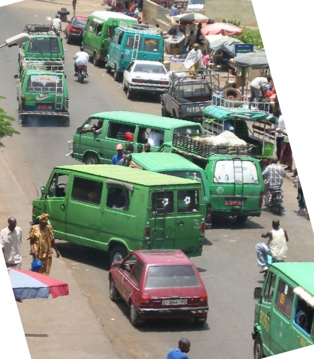 Centre Ville, Bamako. These green bachees are the main form of public transportation. They cost about 150 CFA -- 250 CFA if you cross the river -- at the current exchange rate that's about 30 or 50 cents.